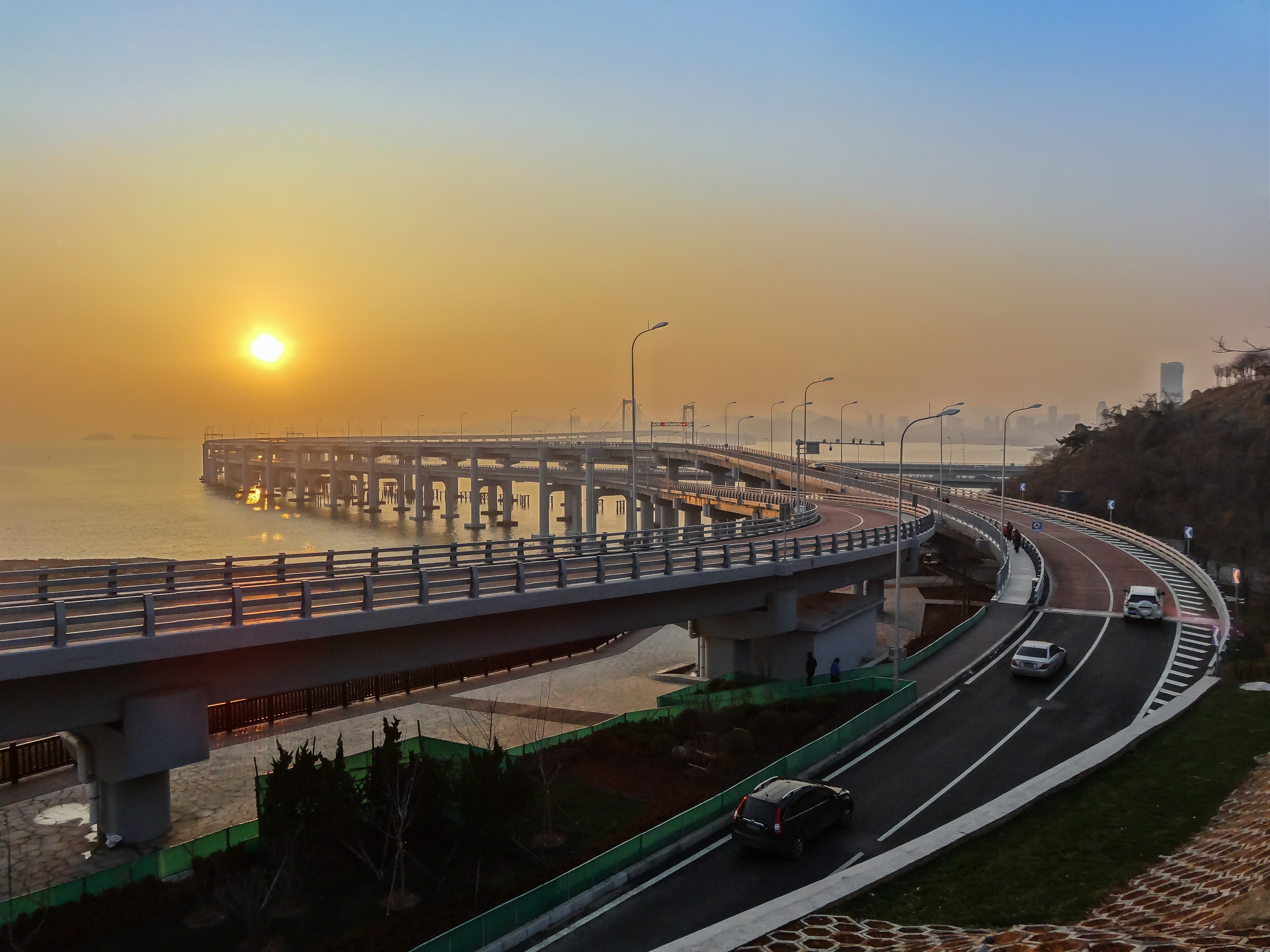 Xinghai Bay Bridge, Dalian, Liaoning, China.